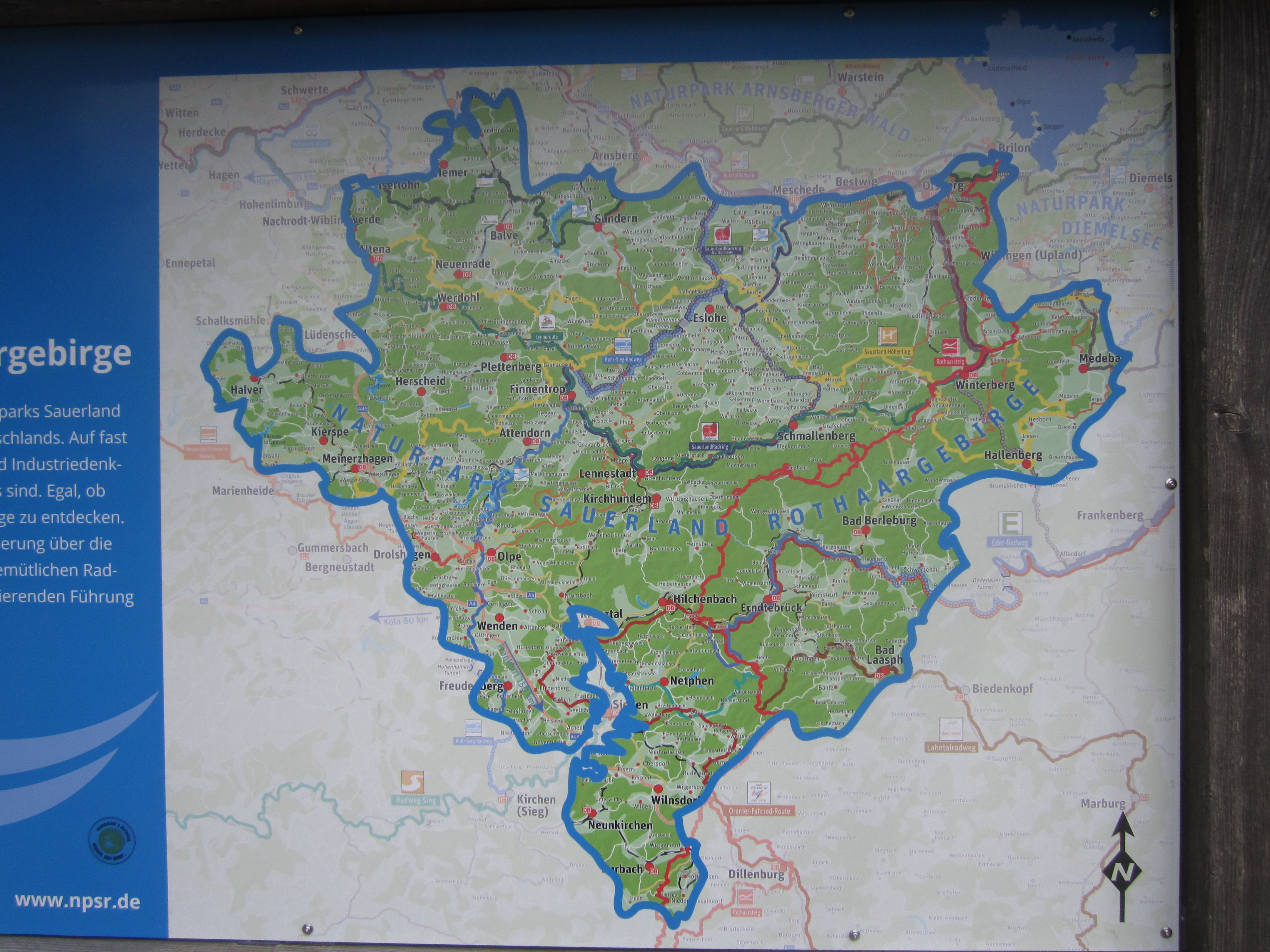 Map Naturpark Sauerland-Rothaargebirge.